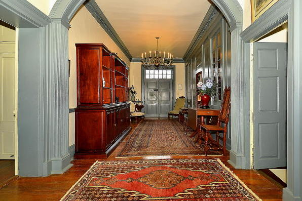 This is the central hall of the Bel Air Plantation, c. 1740